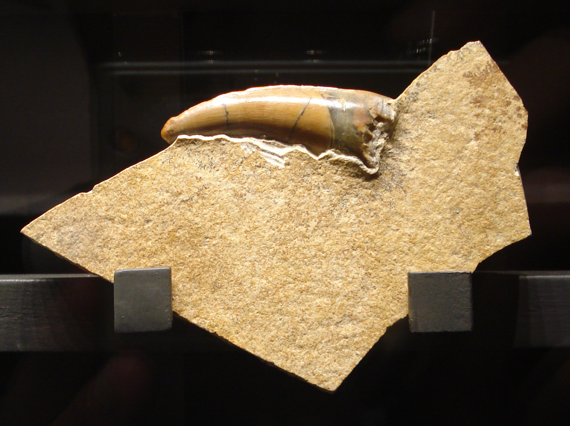 fossil of dakosaurus